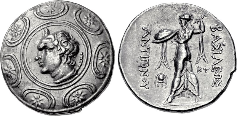 KINGS of MACEDON. Antigonos II Gonatas. 277/6-239 BC. AR Tetradrachm (30mm, 16.96 g, 3h). Amphipolis mint. Struck circa 274/1-260/55 BC. Horned head of Pan left, lagobolon over shoulder, on boss of Macedonian shield / Athena Alkidemos advancing left, holding shield decorated with aegis, preparing to cast thunderbolt; crested Macedonian helmet to inner left, KT to inner right. Touratsoglou 41-2; SNG Saroglos 926-7. Near EF, lightly toned, small banker’s mark in field on reverse. Rare with KT control mark. Ex Tkalec (22 April 2007), lot 41.